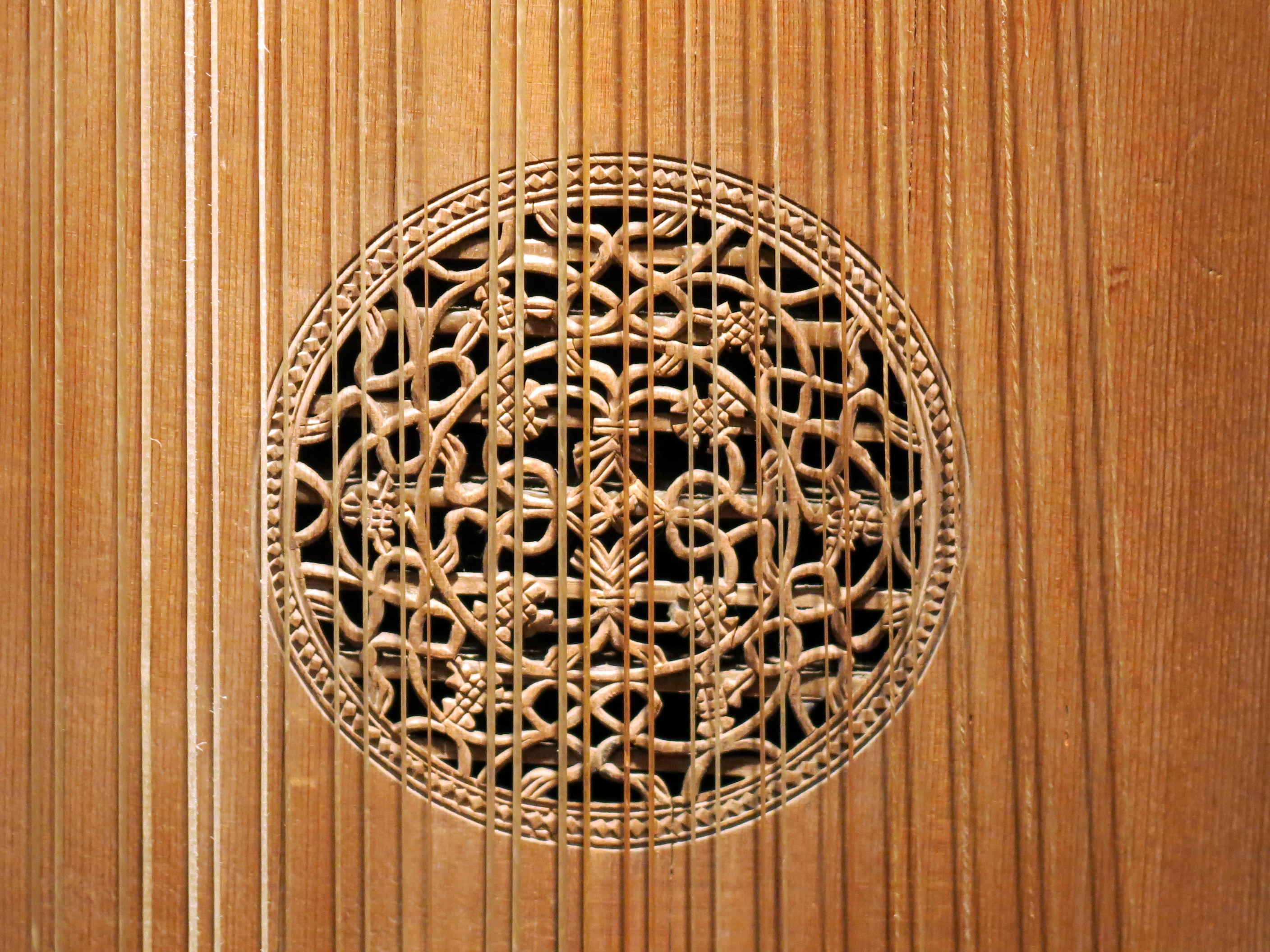 Archlute, Magnus Tieffenbrucker, Venetia, Museu de la Música de Barcelona References MDMB 404: arxillaüt, Magnus Tieffenbrucker (1589-1621). Catalogue online, Museo de la Música.